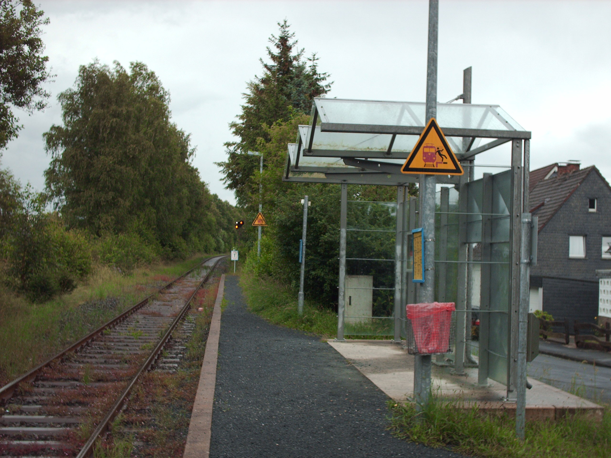 Altenseelbach station, Neunkirchen, Germany check usage